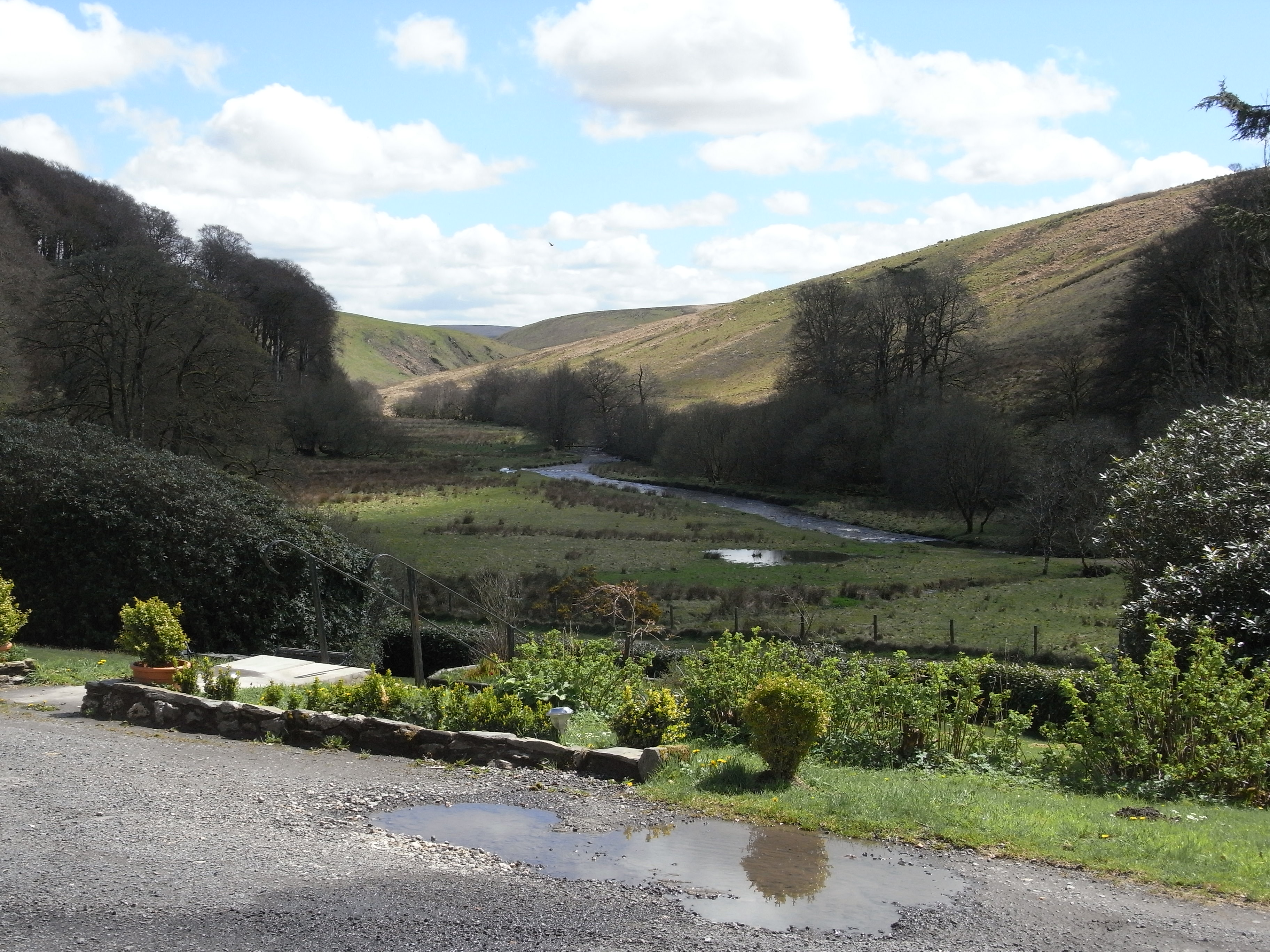 View from Simonsbath House terrace, looking downstream with the River Barle